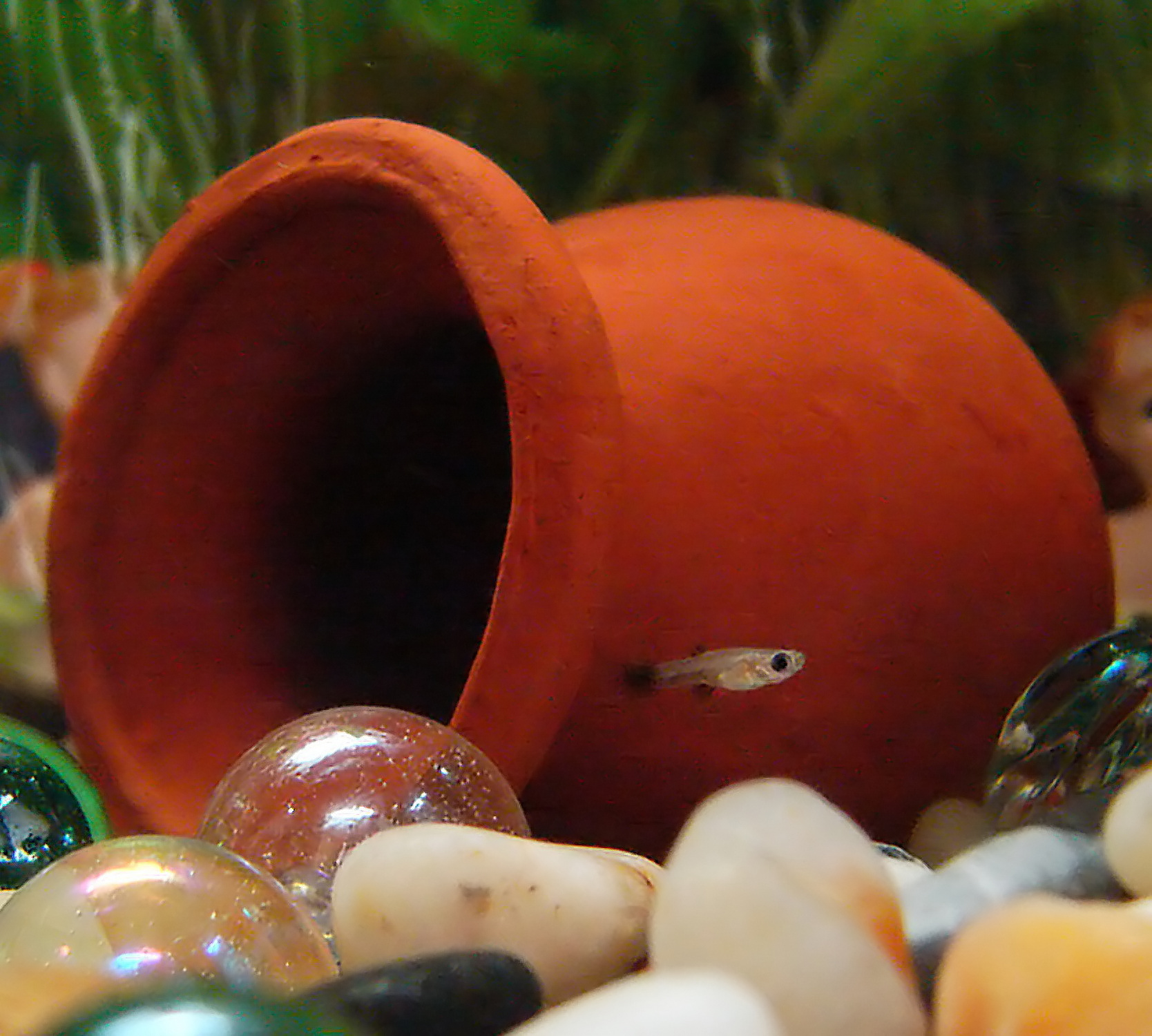 One week old fry of guppy (Poecilia reticulata), a live-bearing fish